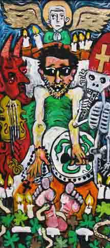 Painting by Brian Whelan.